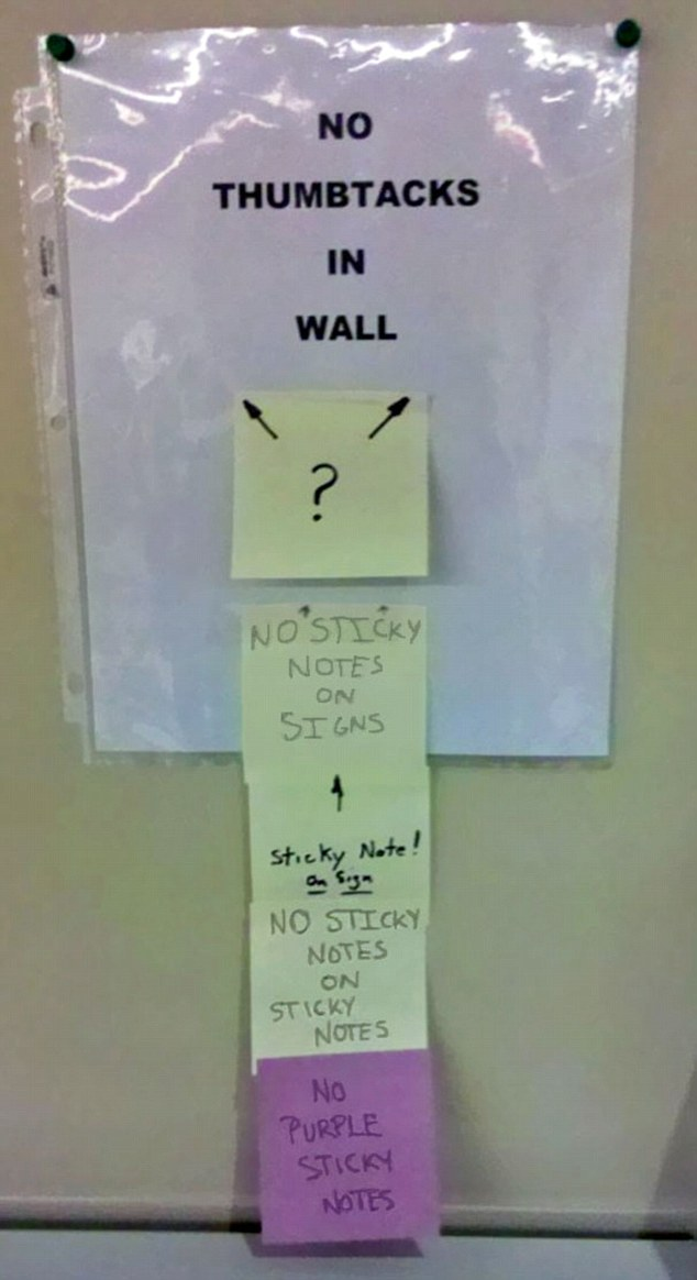 Office post-it note banter